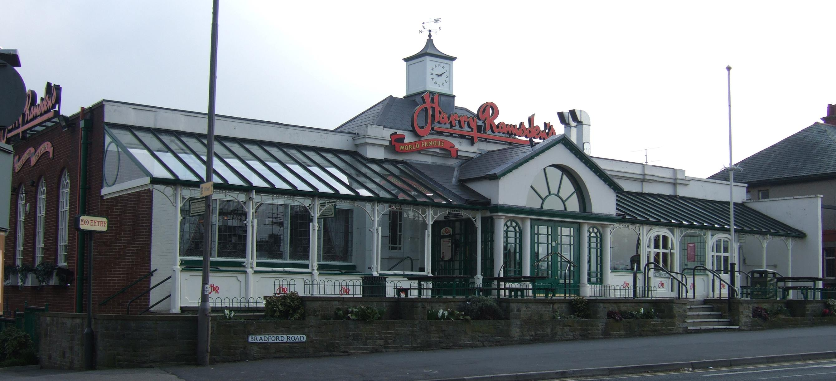 A picture of the Guiseley branch of Harry Ramsden's, taken by myself, Mark Morton, on 25 March 2007.